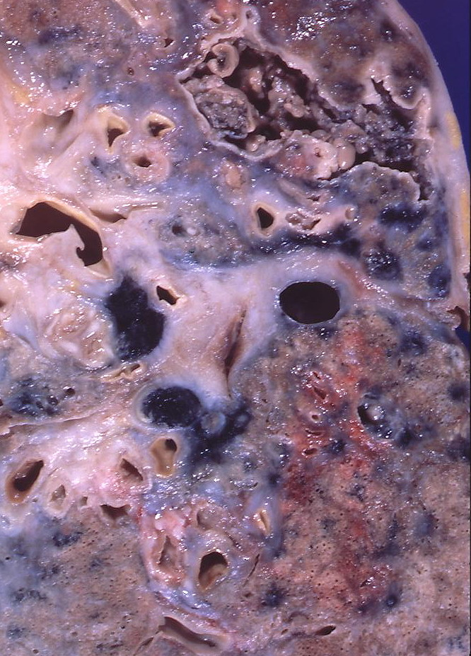 Aspergilloma complicating sarcoidosis Aspergillomas complicating sarcoidosis usually reside in ectatic bronchi whereas those complicating tuberculosis usually reside in cavities resulting from parenchymal necrosis.